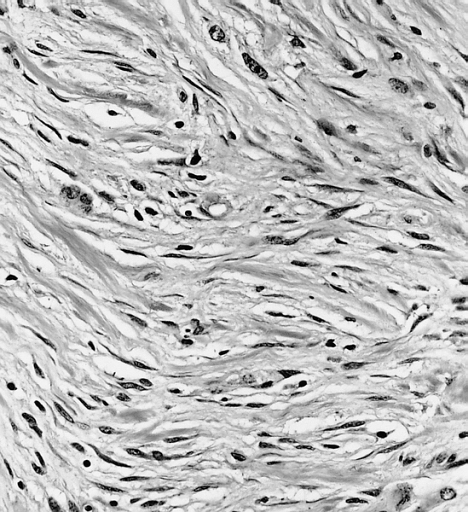 CNS: DESMOPLASTIC INFANTILE GANGLIOGLIOMA Dense desmoplastic tissue, often exhibiting a spindle cell or storiform pattern, frequently makes up the bulk of the lesion.